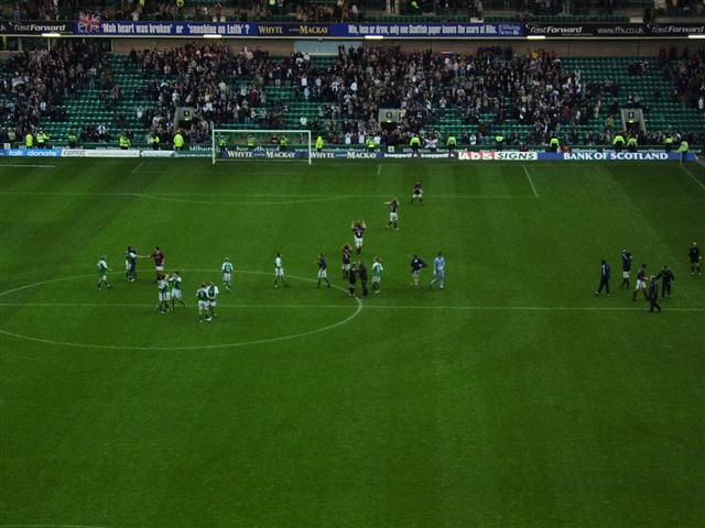 Players shake hands after the SPL Edinburgh derby match between Hibernian F.C. and Heart of Midlothian F.C.